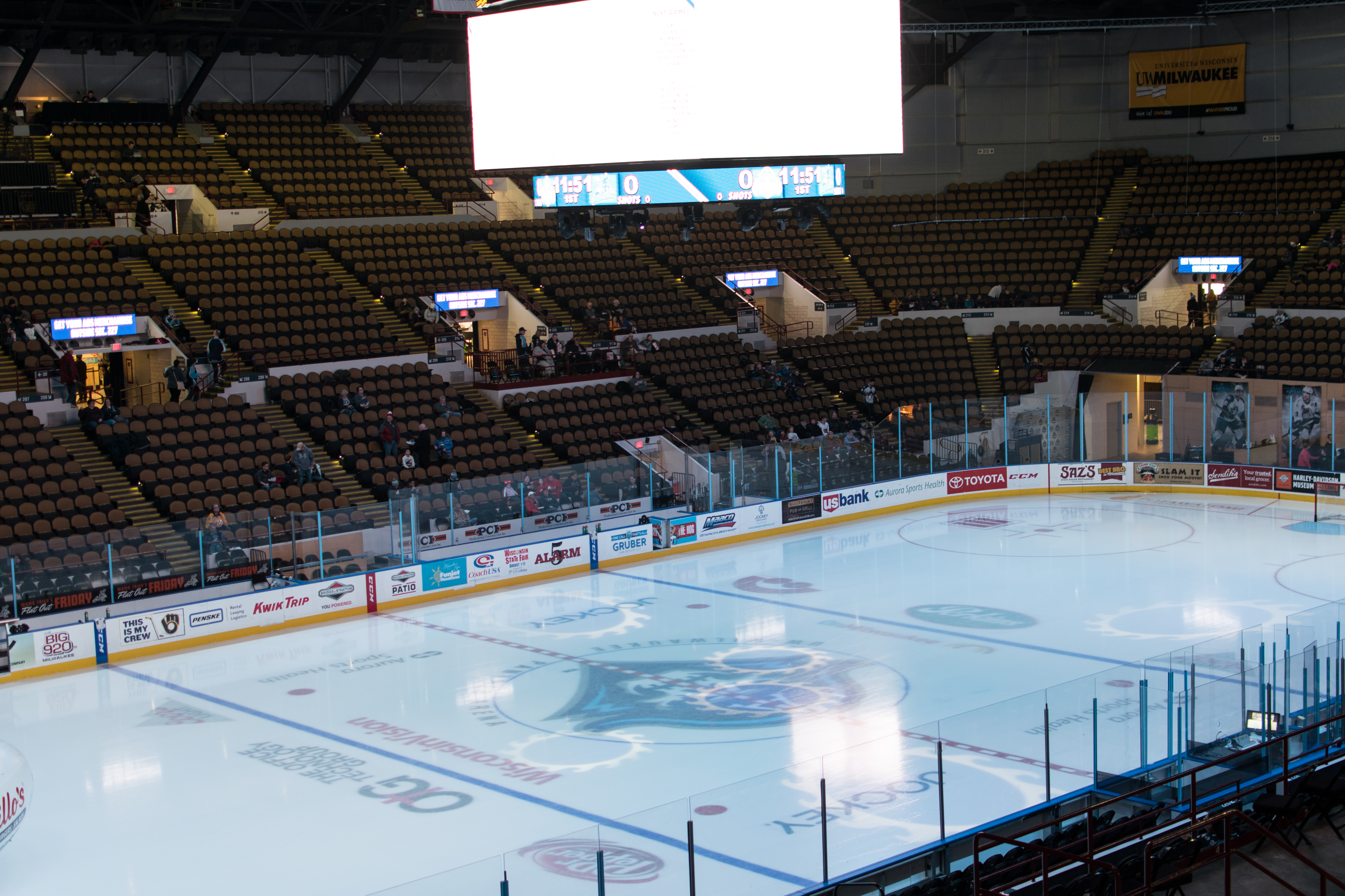 UW Milwaukee Panther Arena set up for Hockey